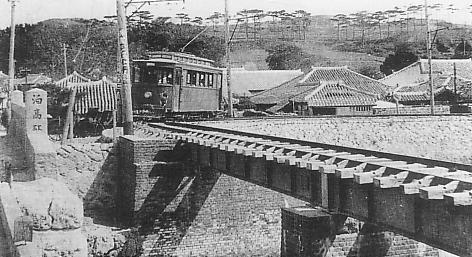 Okinawa Electric Railway in the vicinity of Tomaritakahashi